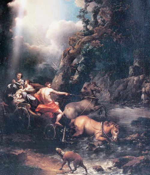 Feodosiy Yanenko. Storm.